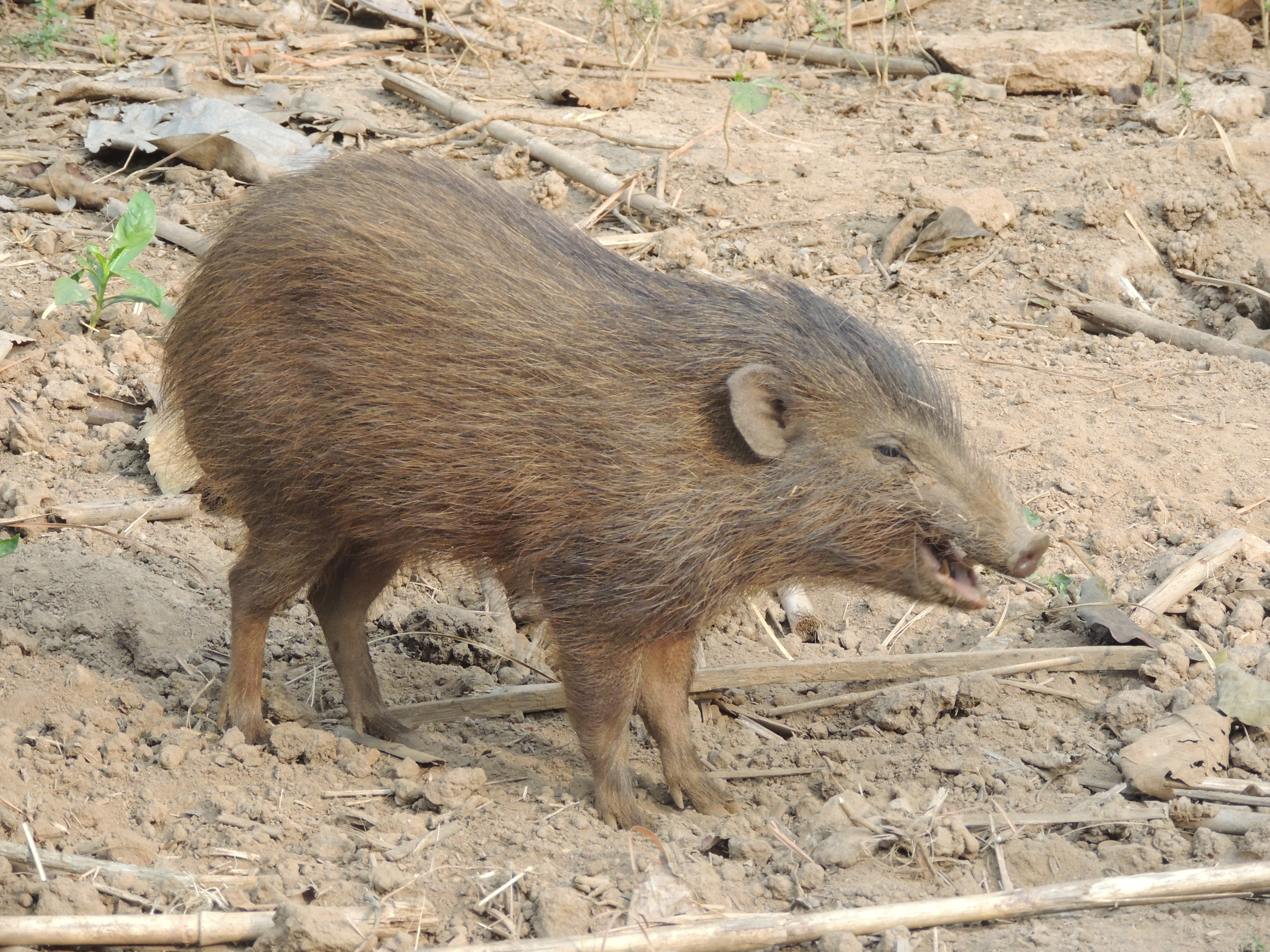 Pygmy hog in the Pygmy Hog Research and Breeding Centre in Assam, Guwahati, Assam